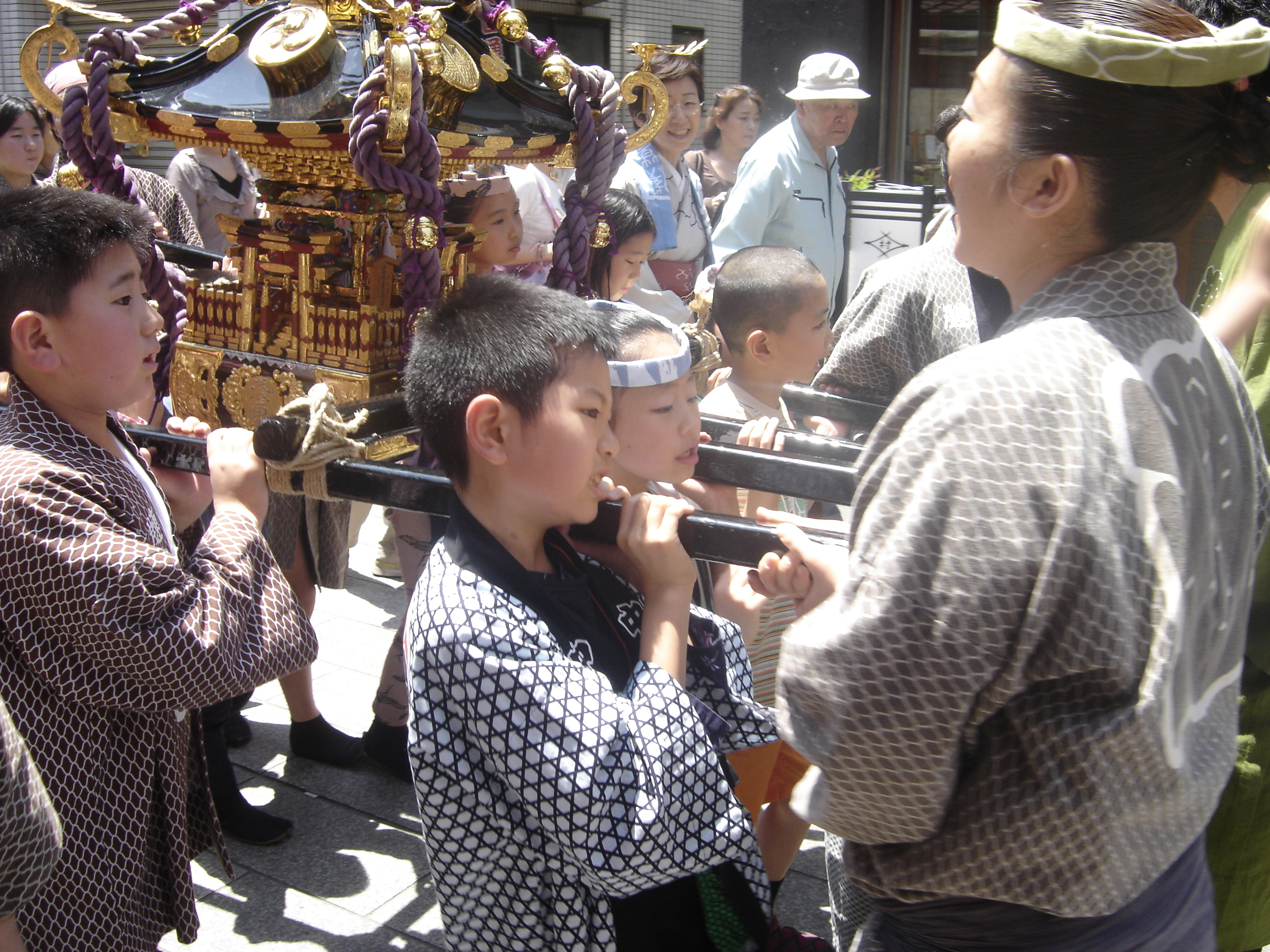 Several young boys carry a small mikoshi through the streets of Asakusa during Sanja Matsuri.